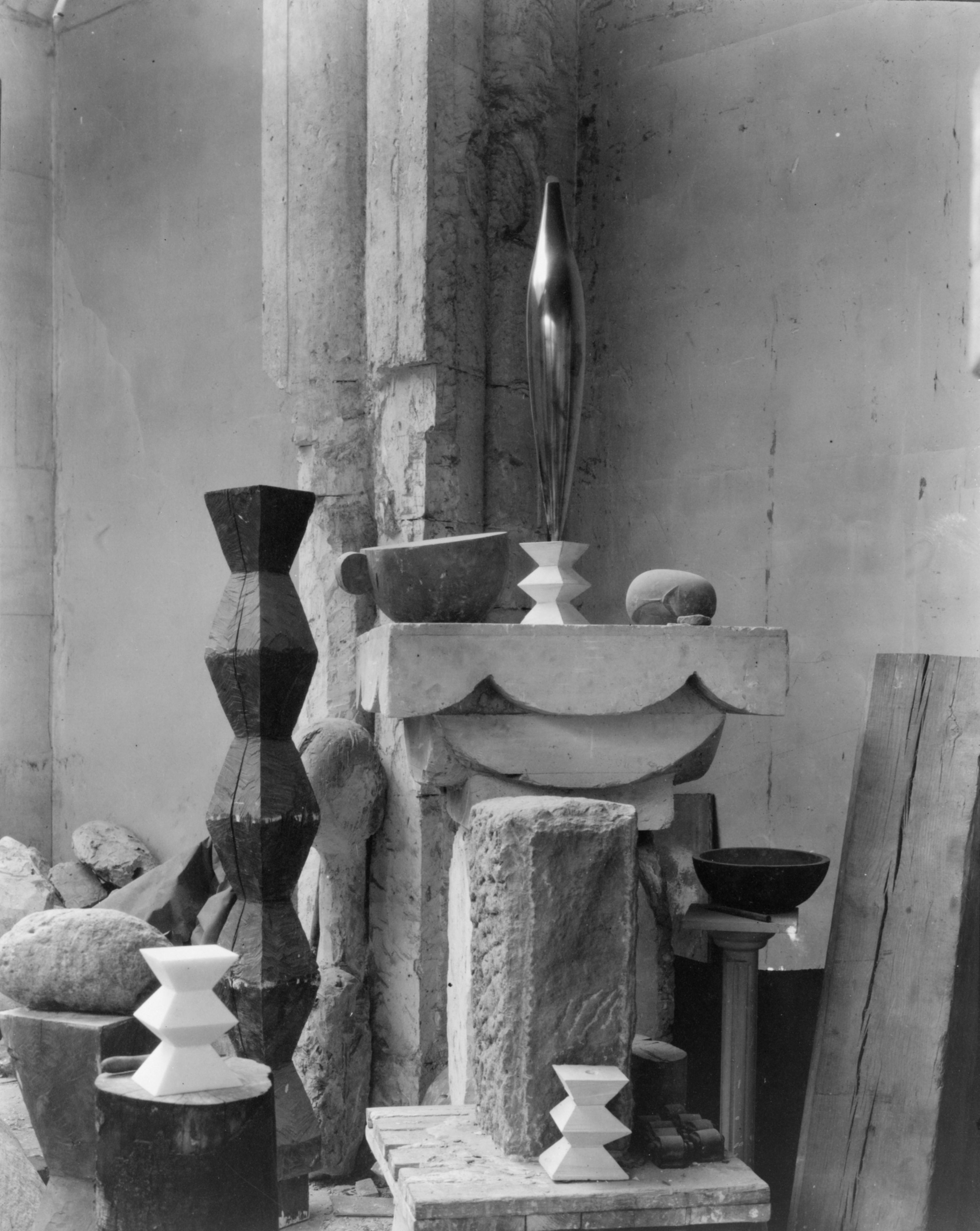 Brancusi's Studio, found at Met Museum, NYGelatin silver print; 24.4 x 19.4 cm (9 5/8 x 7 5/8 in.)